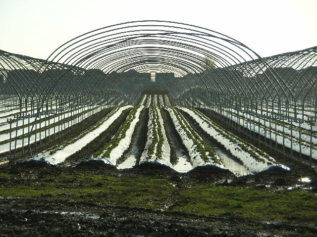 More Strawberry Fields, forever . . . and ever